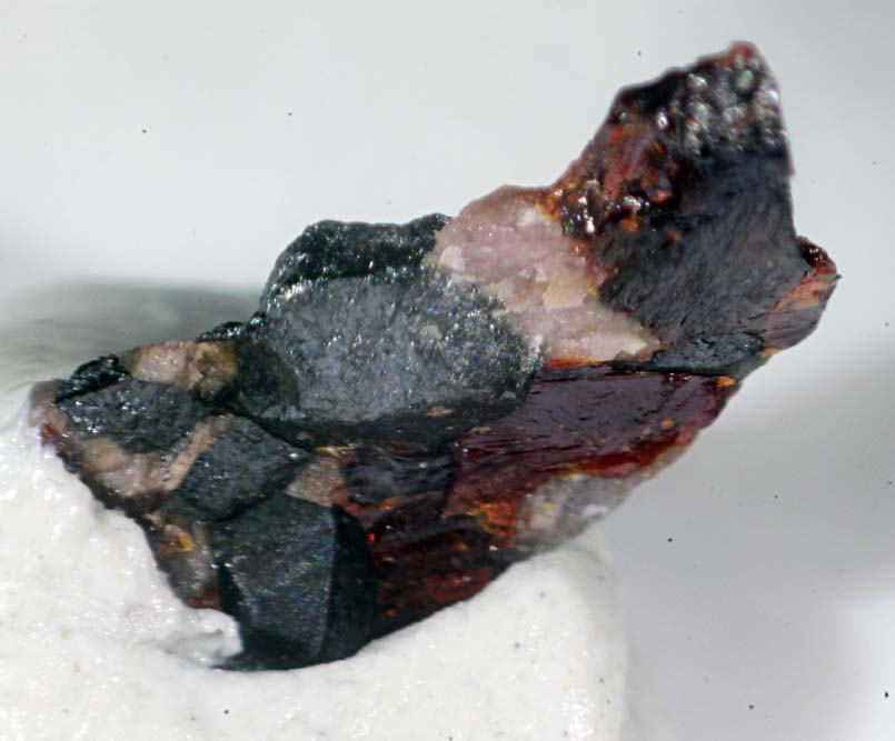 Pink crystal aggregates of the extremely rare mineral jerrygibbsite from the type and only one of three known localities known worldwide (Franklin Mine, New Jersey, United States of America). Associated minerals are orange zincite and black franklinite. Jerrygibbsite is a manganese silicate.